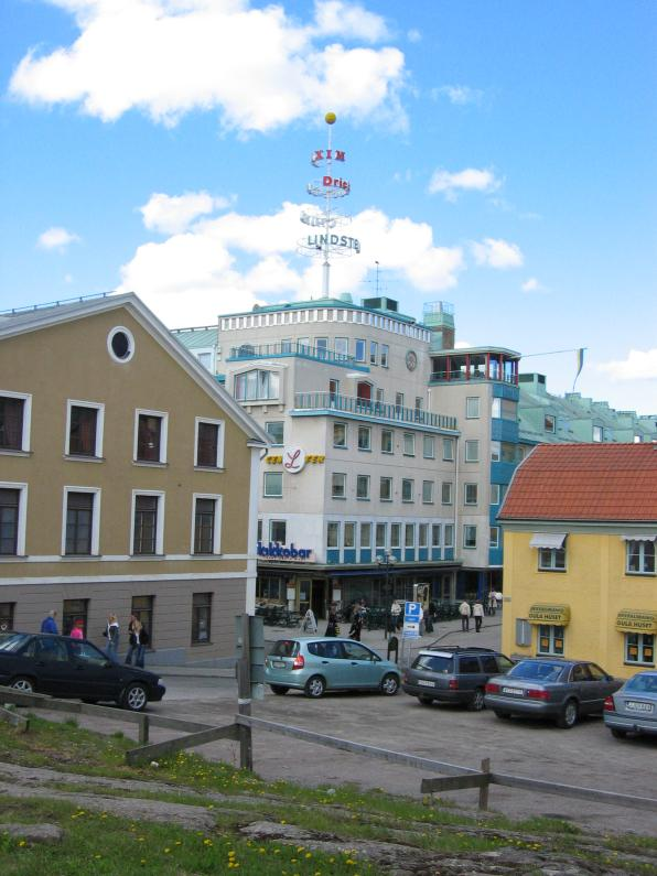 L-Center building, downtown Linköping. G. Lindsténs Fastigheter AB was acquired in 1999 by Malmstaden.